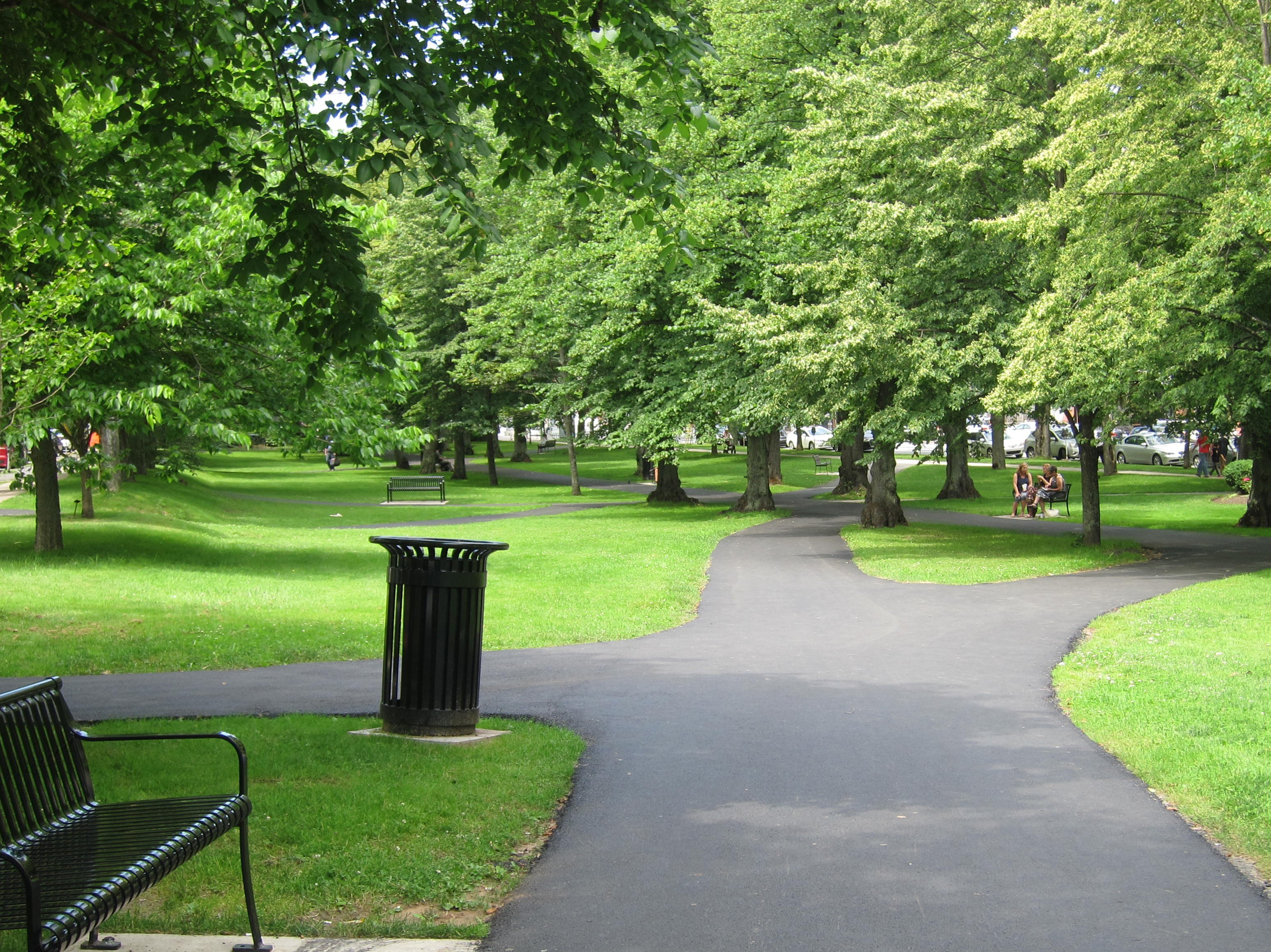 Paths in Victoria Park in Halifax, Nova Scotia.